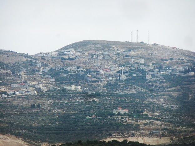 Bizziriya from Einav